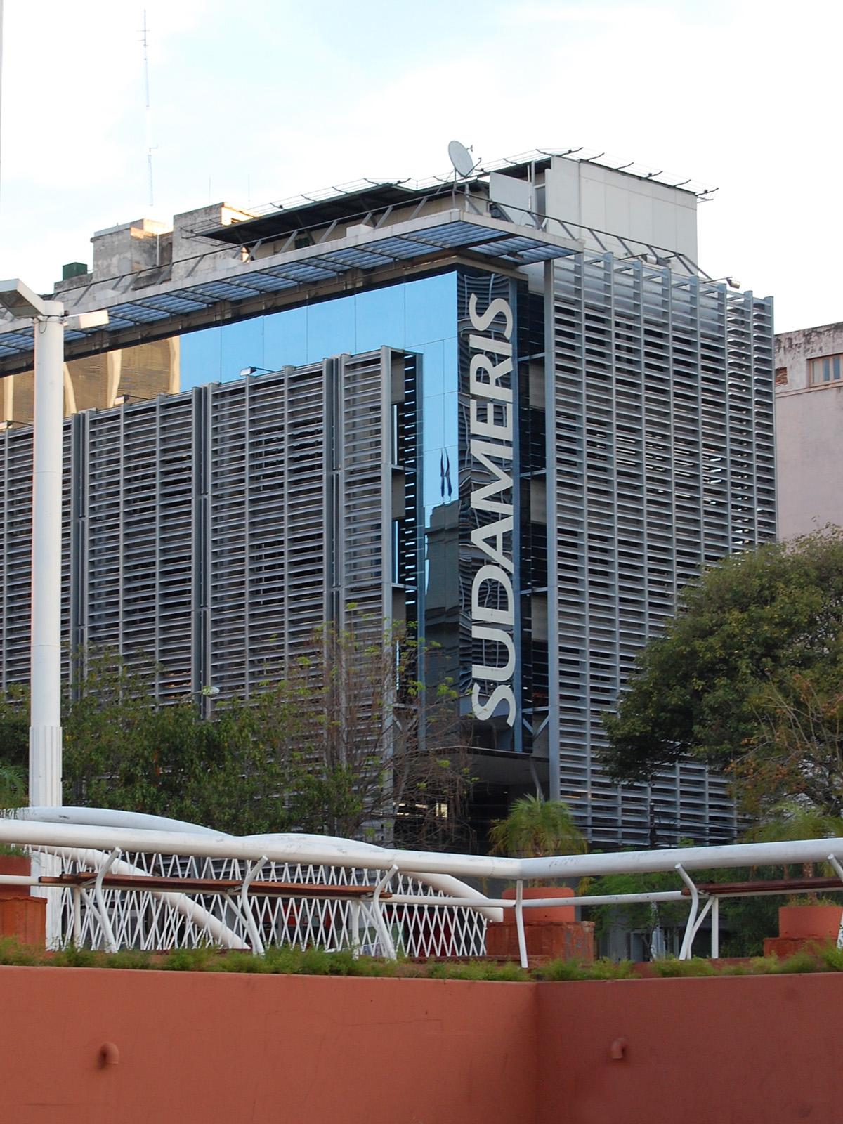 Sudameris Bank building located in downtown of Asuncion, Paraguay